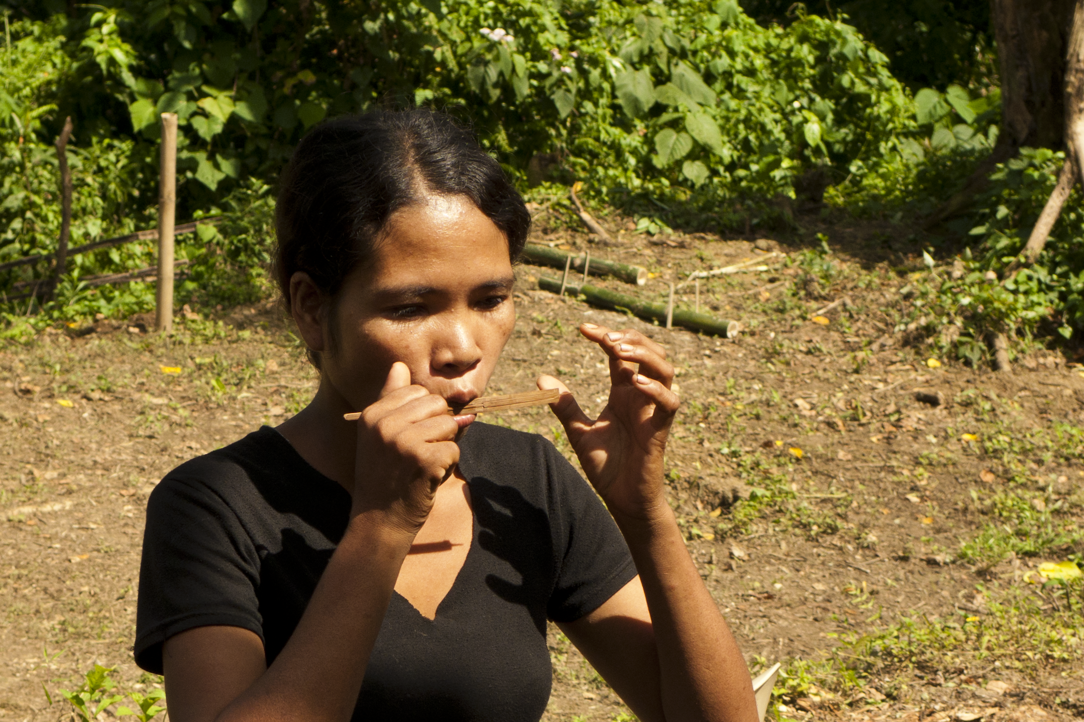 A small piece of bamboo, a knife and five minutes and you get a musical instrument.